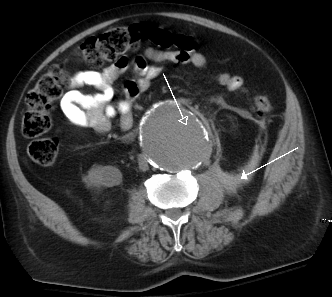 A ruptured AAA as seen on CT